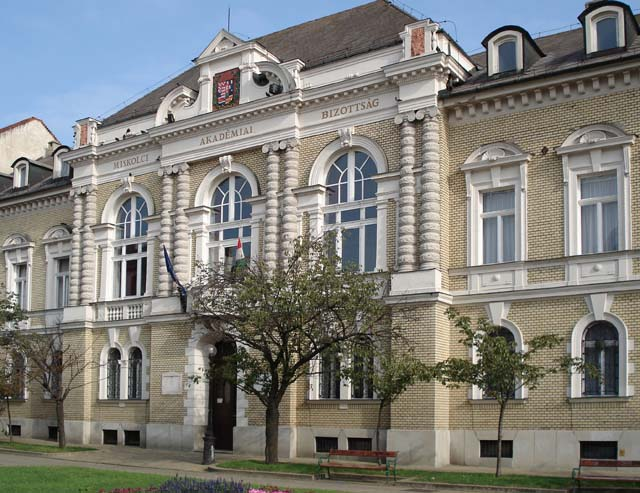 Building of Miskolc Academy Commission, Erzsébet square, Miskolc